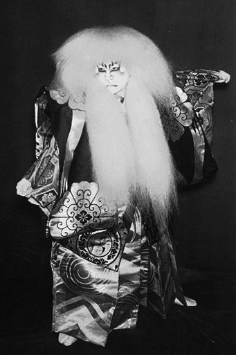 Ennosuke Ichikawa II (1888–1963) as Oyajishi no Sei, in the January 1944 Meiji-za production of Ren-jishi